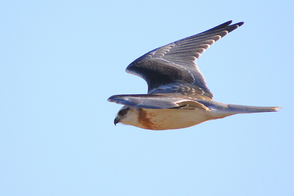 Immature Black-shouldered Kite in flight, Stockton NSW